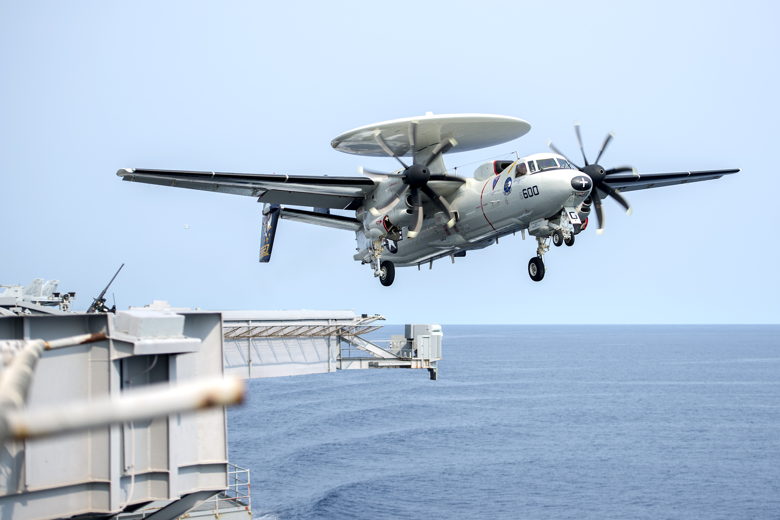 A U.S. Navy Northrop Grumman E-2C Hawkeye (BuNo 165827), assigned to the Carrier Airborne Early Warning Squadron 117 (VAW-117) "Wallbangers", performs a "touch-and-go" on the flight deck of aircraft carrier USS Harry S. Truman (CVN-75) in the Atlantic Ocean. The Harry S. Truman Strike Group was underway participating in a Composite Training Unit Exercise (COMPTUEX) in preparation for a future deployment.